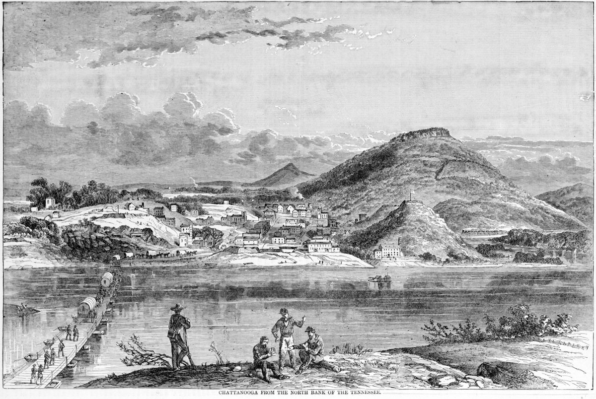 Chattanooga from the north bank of the Tennessee. Soldiers crossing the Tennessee River on pontoon bridge, Chattanooga in background, Sept. 1863.